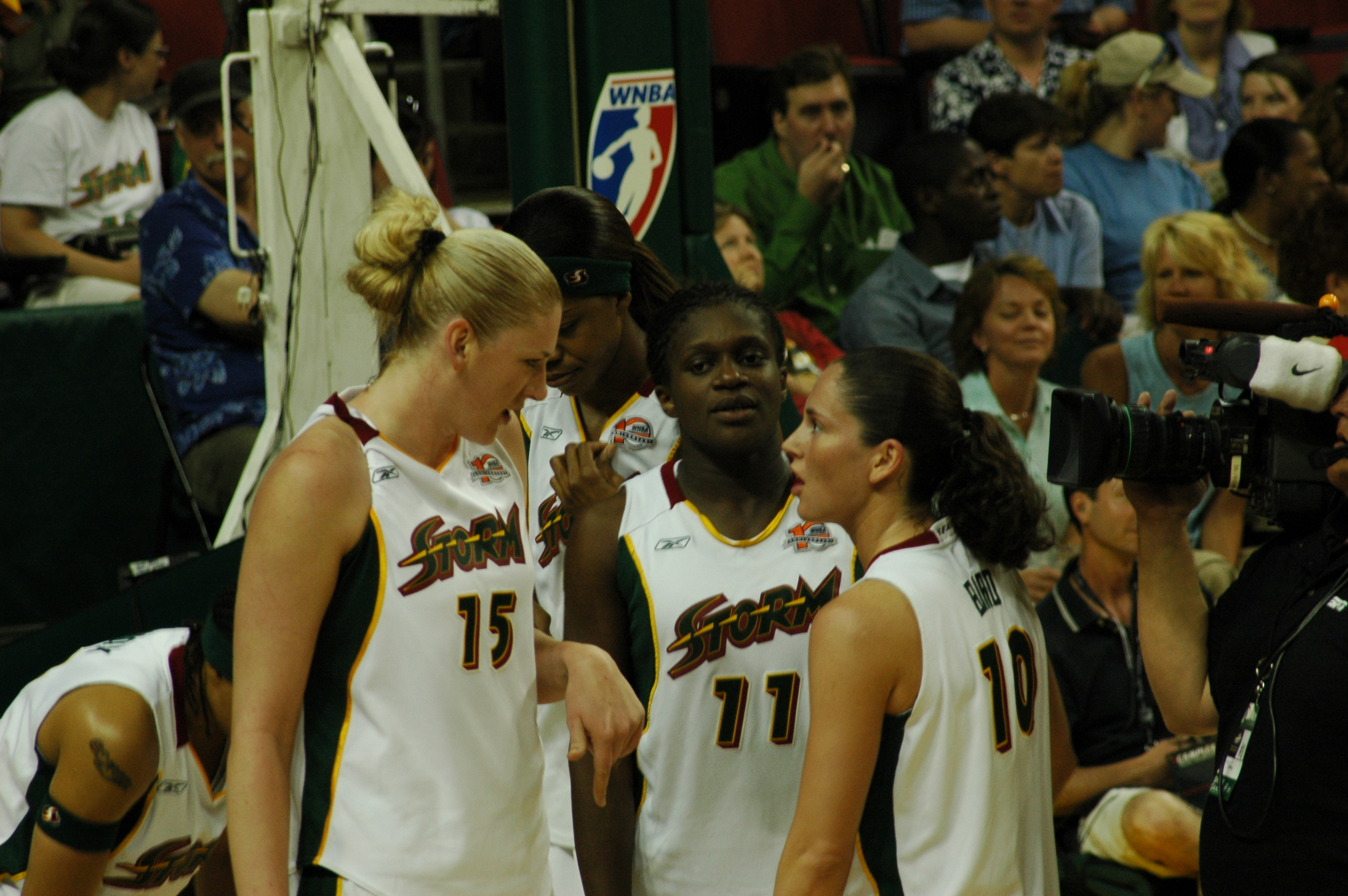 Professional basketball players Lauren Jackson (#15, left) and Sue Bird (#10, right).